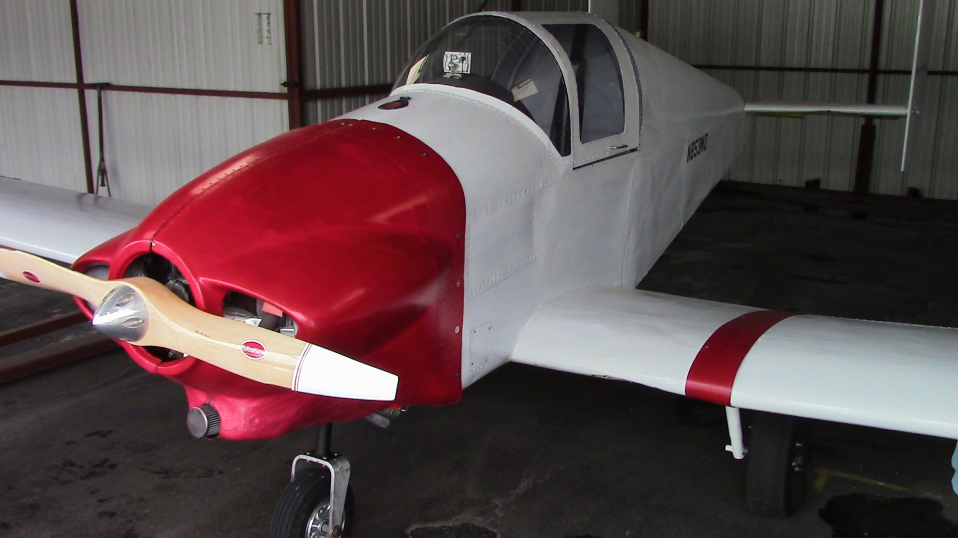 DCS Mini Coupe